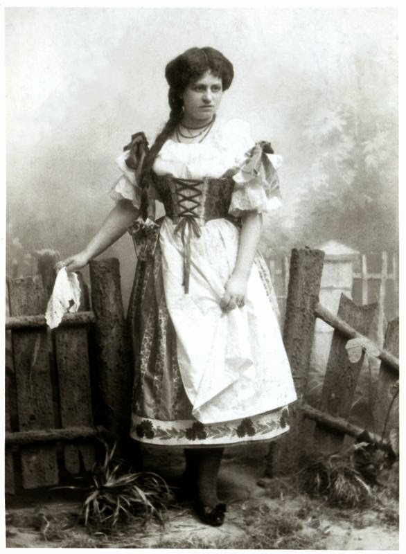 Photographic portrait of Czech operatic soprano Amálie Bobková (1874–1956) in unknown role